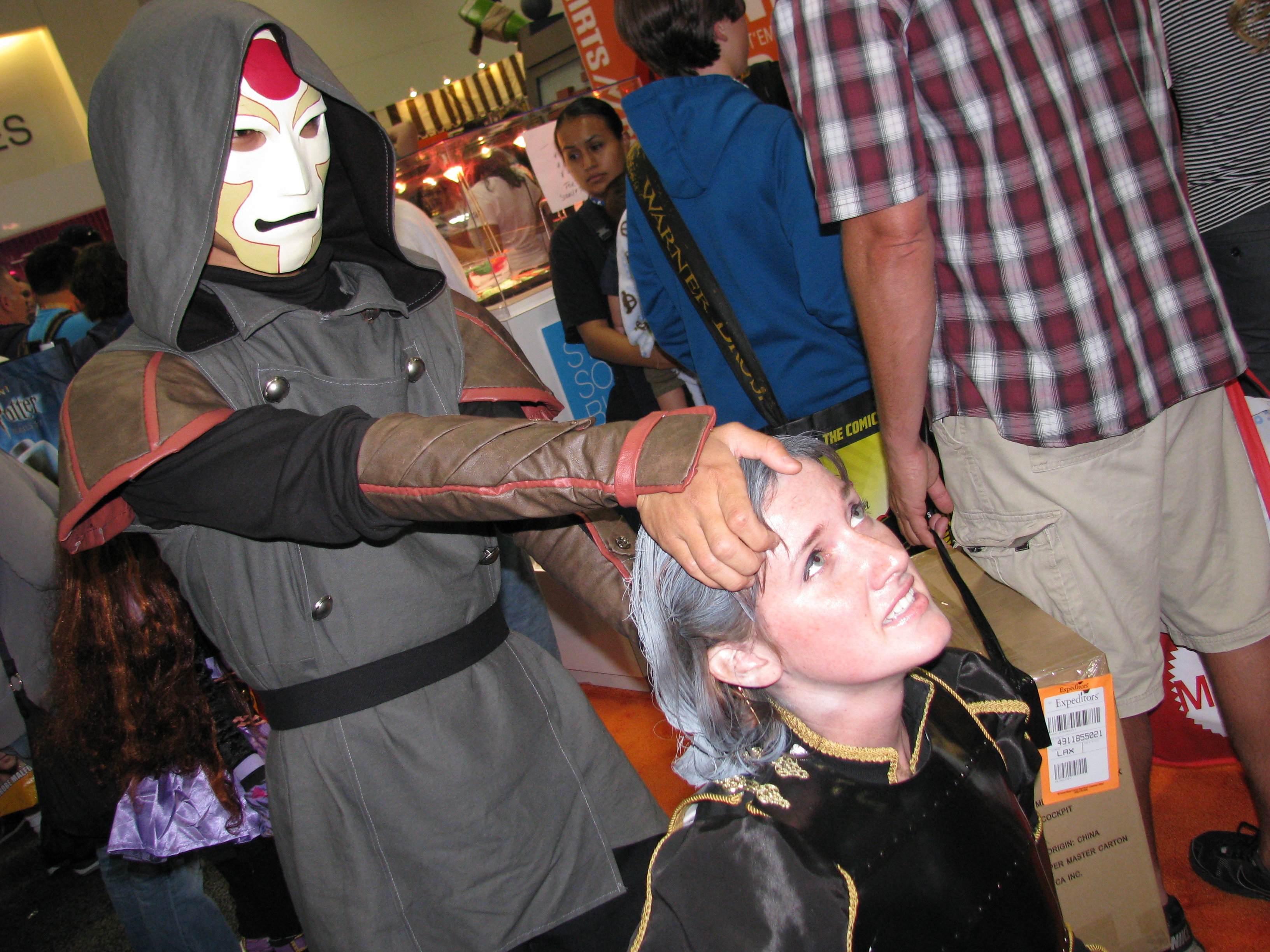 A cosplay of Amon taking bending away from Lin Beifong from The Legend of Korra Cosplay at San Diego Comic Con 2012.